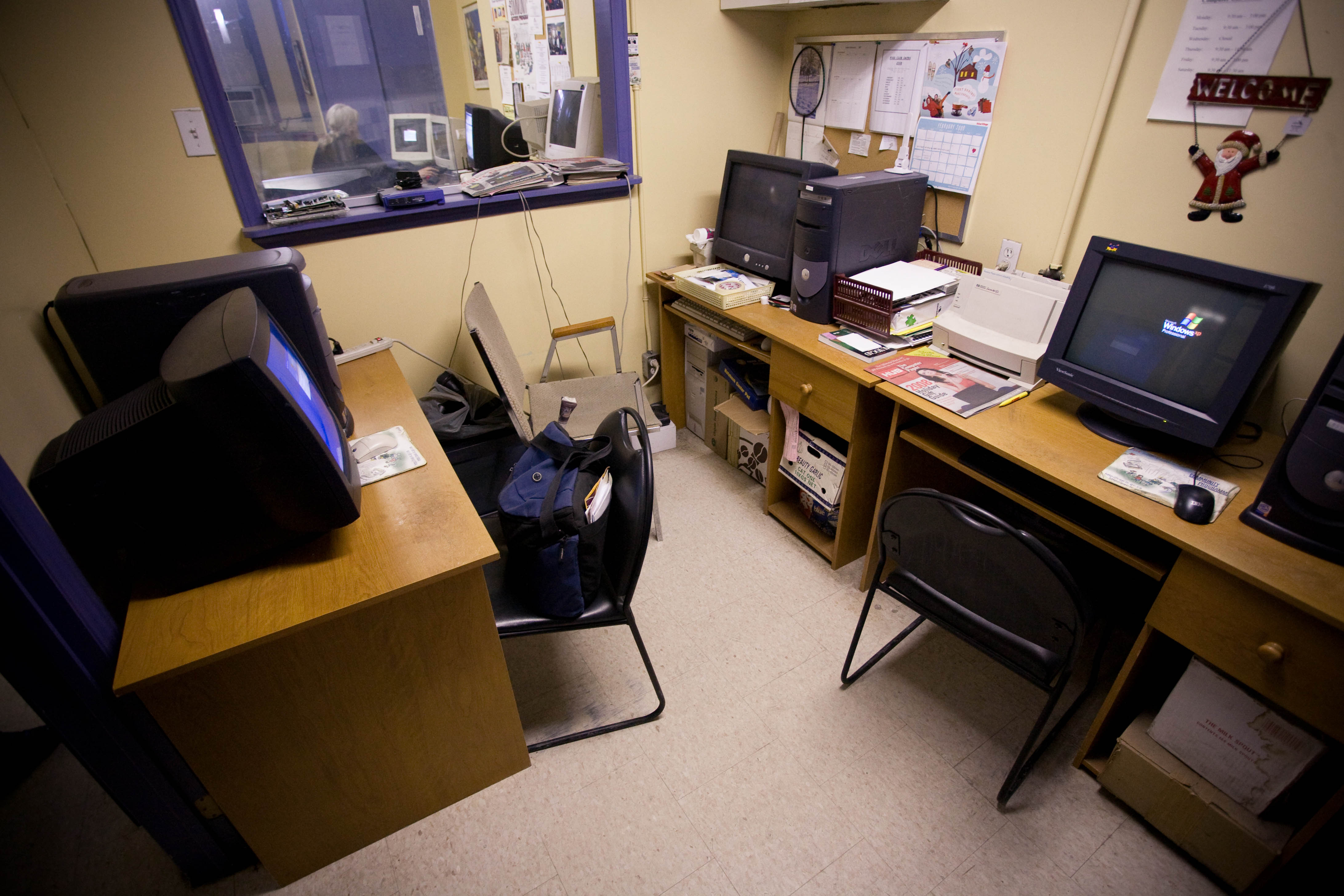 Jamestown Community Access Program site